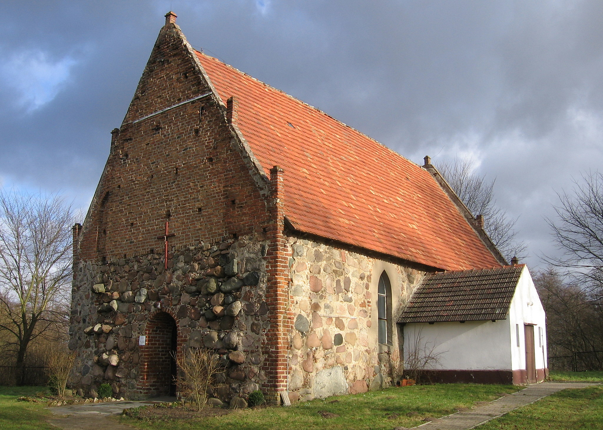 Our Lady of the Rosary Church in Baszewice village, Poland